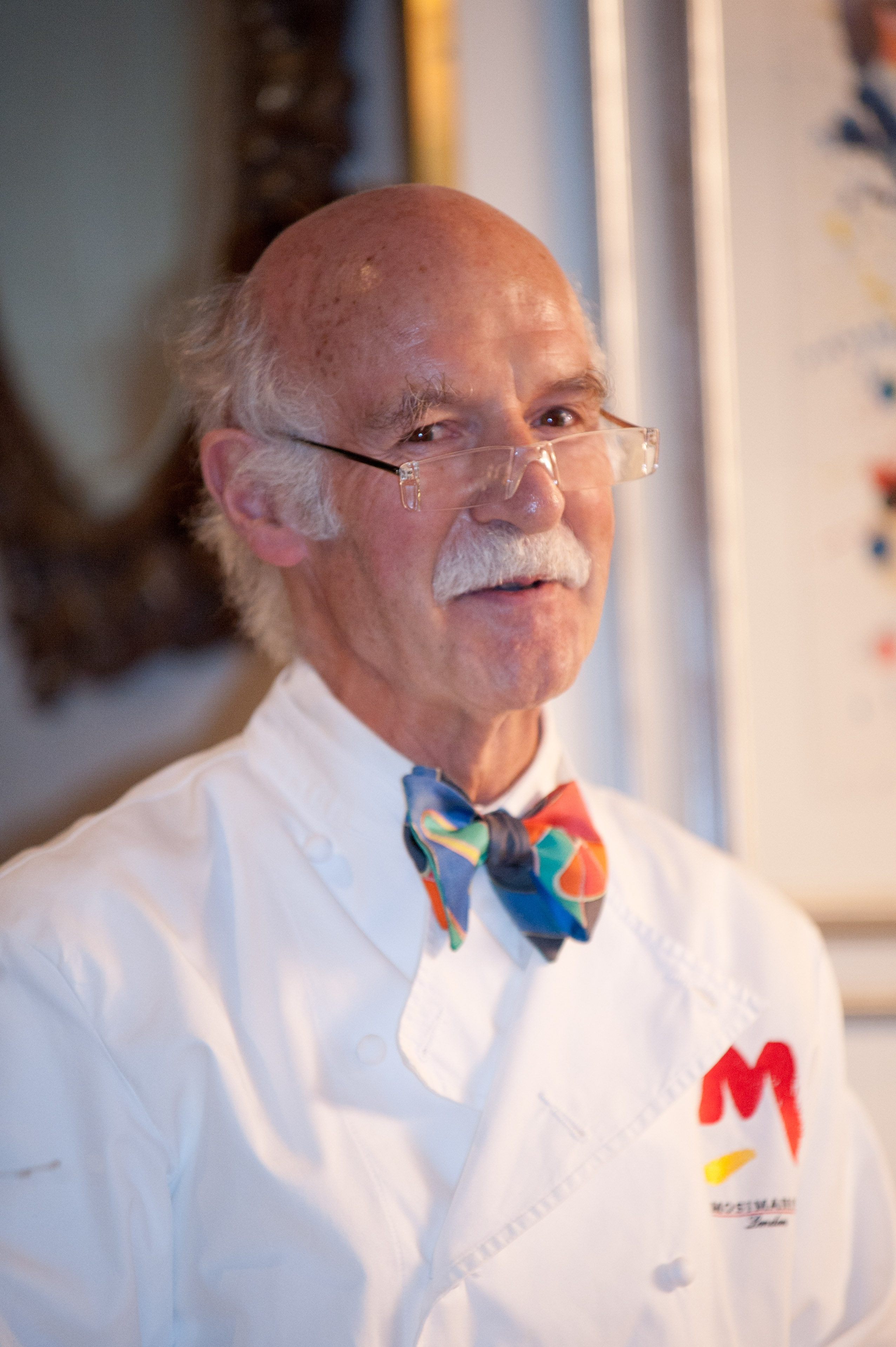 Chef Anton Mosimann at the Moet Hennessy Financial Times Club dinner at Mosimann's Club, London.